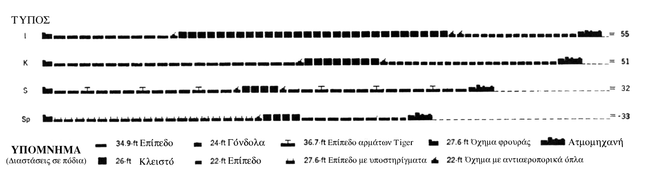 Deutsche Reichsbahn trains in World War 2